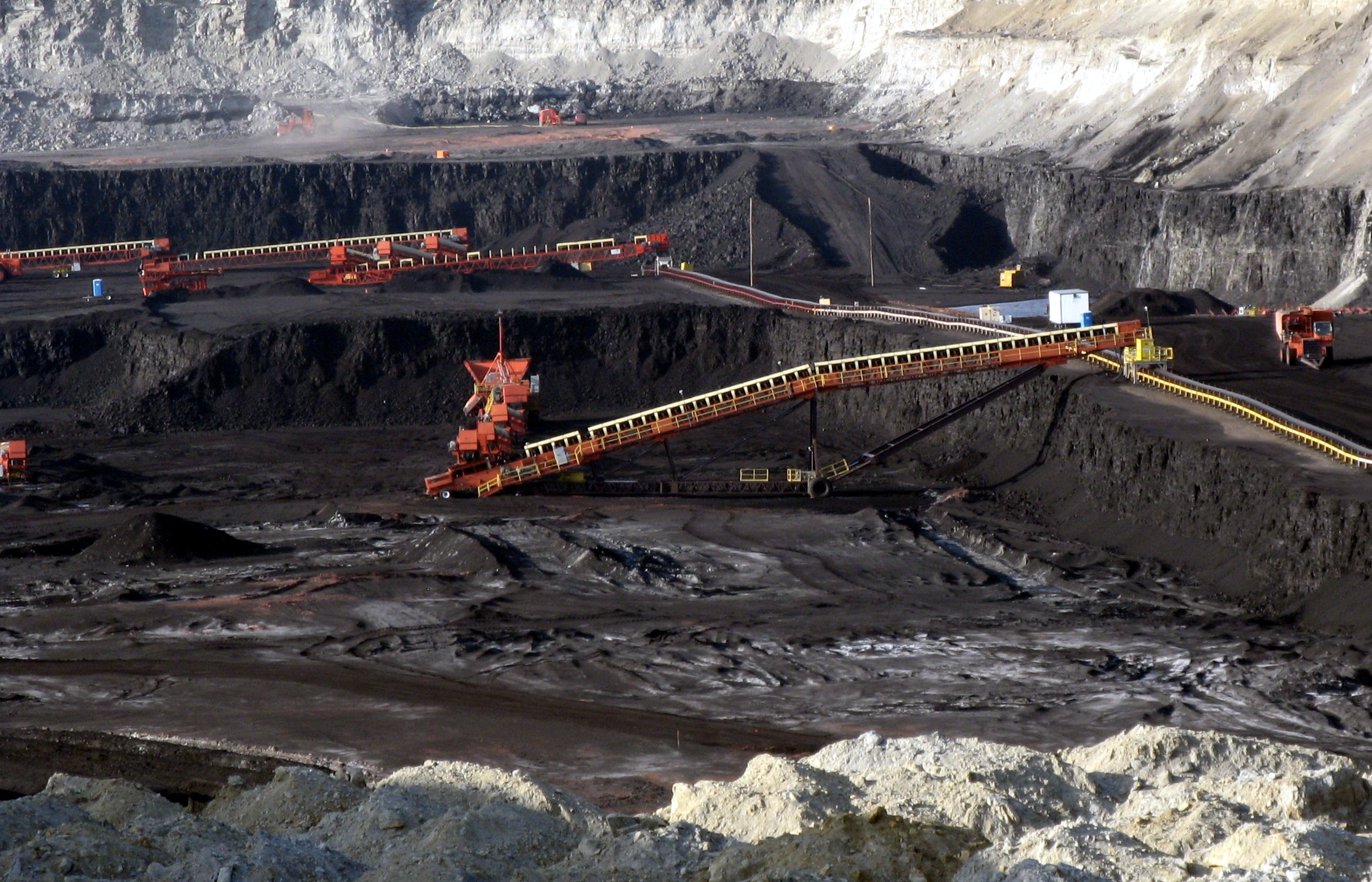 Surface coal mine, detail view — in Gillette, Campbell County, Wyoming In 2008.